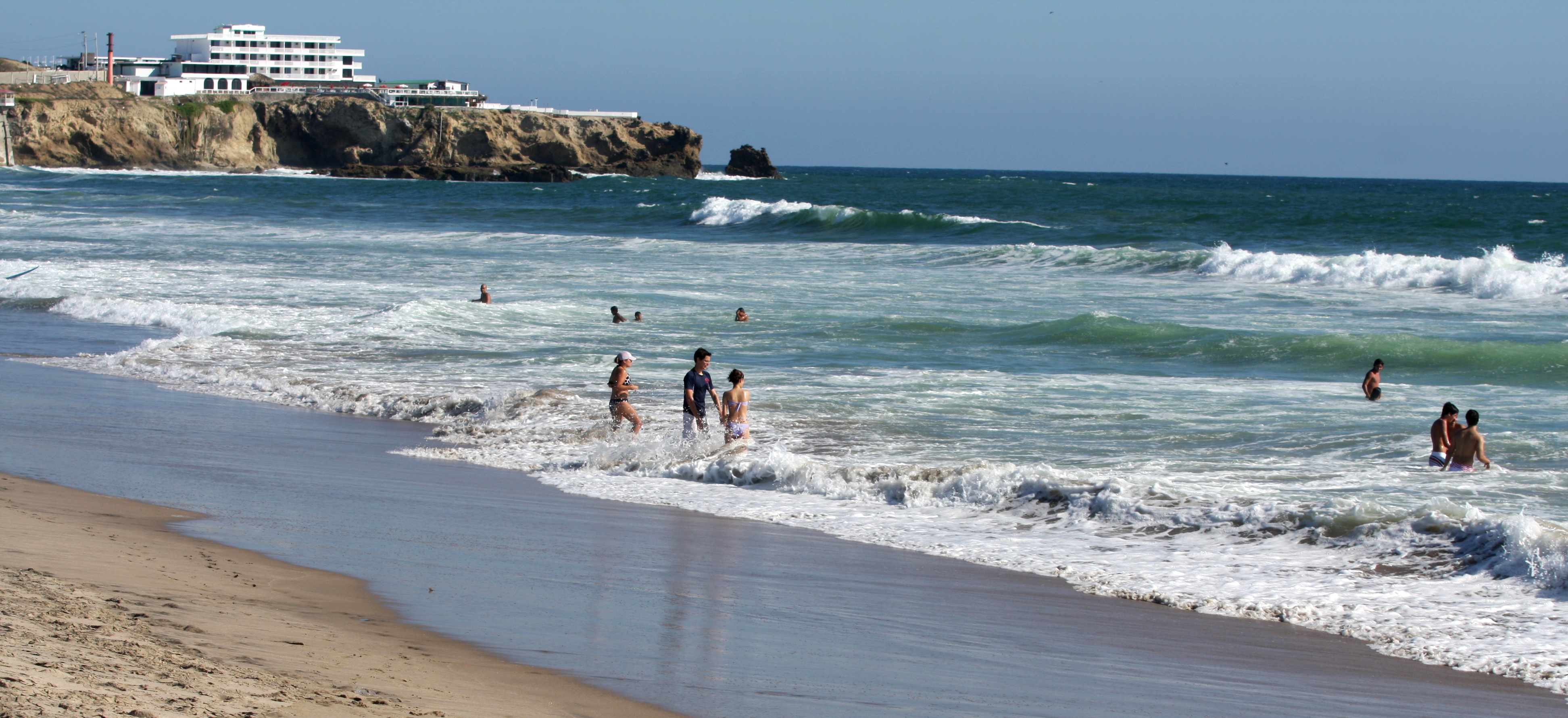 the beach at punta carnero ecuador is 2,500 meters long